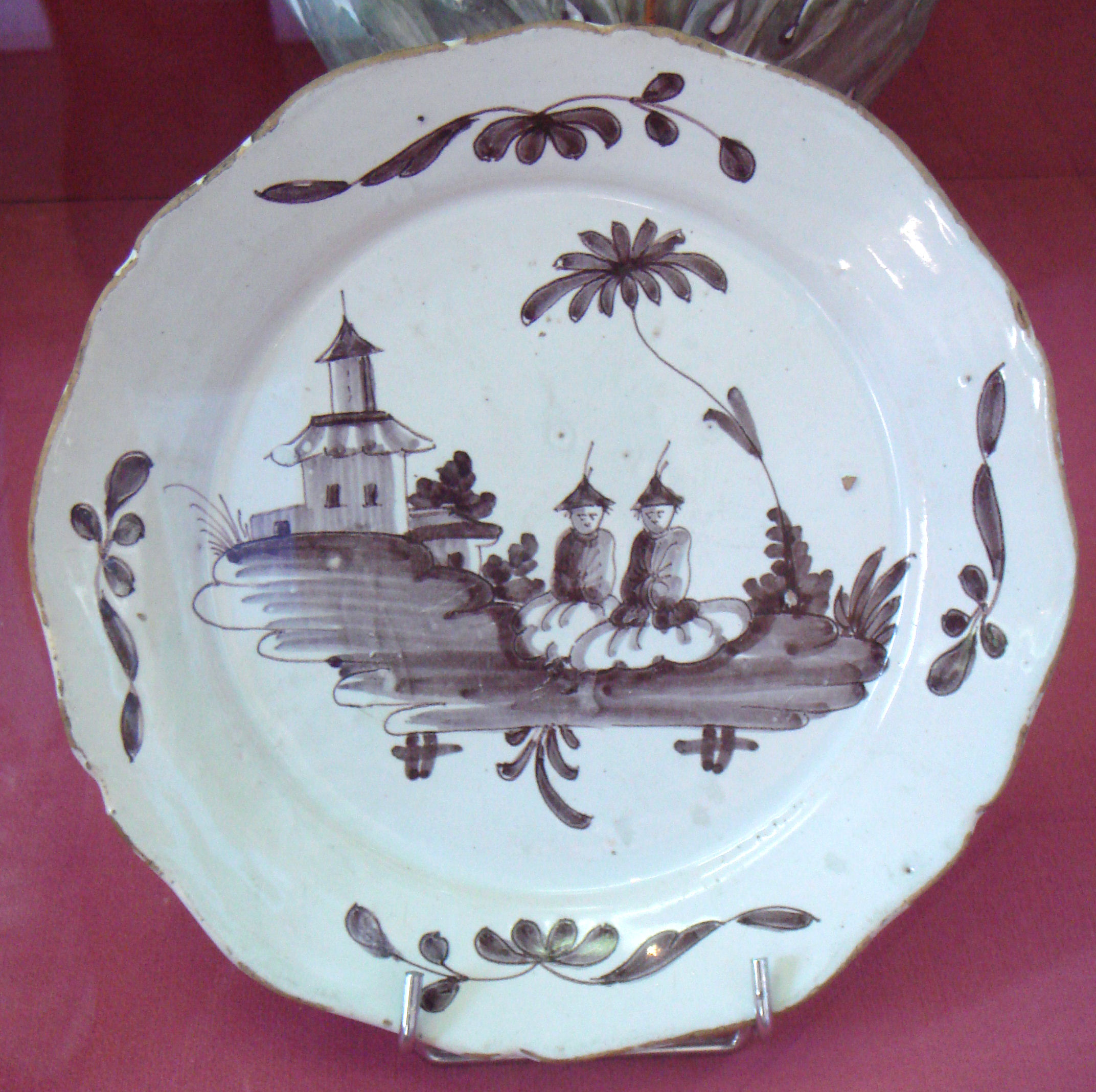 La_Rochelle_Faience_de_grand_feu_with_Chinese_manganese_motif_18th_century.